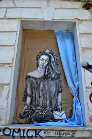 Bleeps' work part of the window series